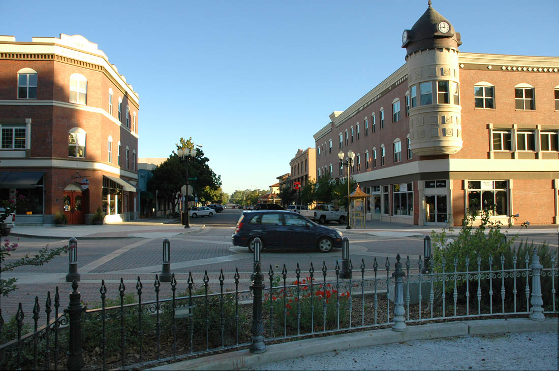 The new clock tower across from the city park in Paso Robles